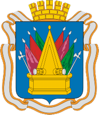 Tobolsk (Tyumen oblast), coat of arms (2007)